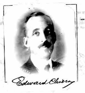 Archaeologist Edward Chiera, from a 1924 passport application